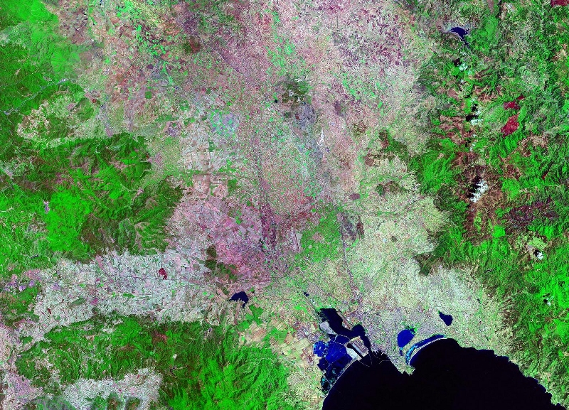 Satellite image of the Campidano plain, in the lower center Port Cágliari